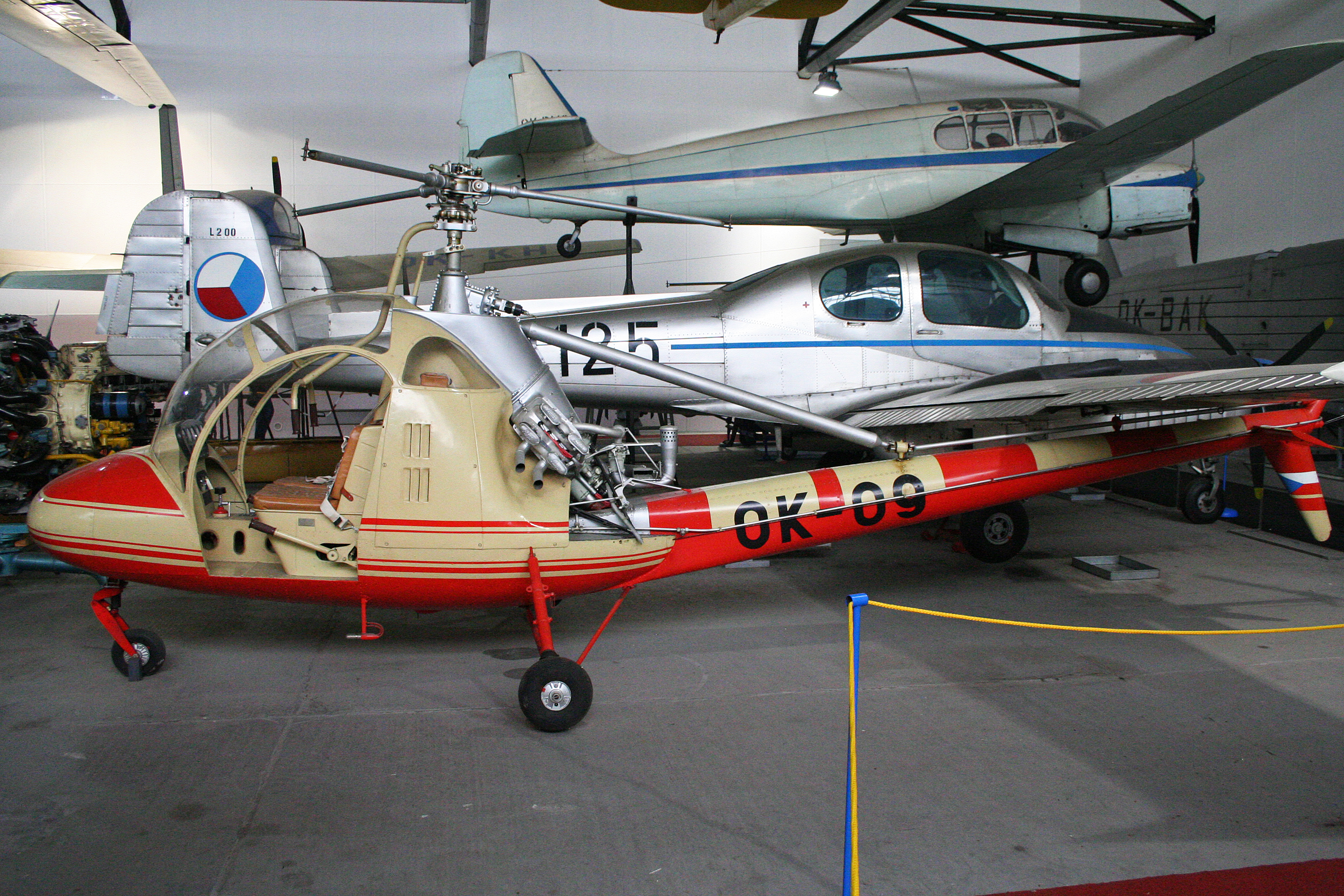 On display in the Post War hangar, Kbely museum, Czech Republic. 07-10-2012